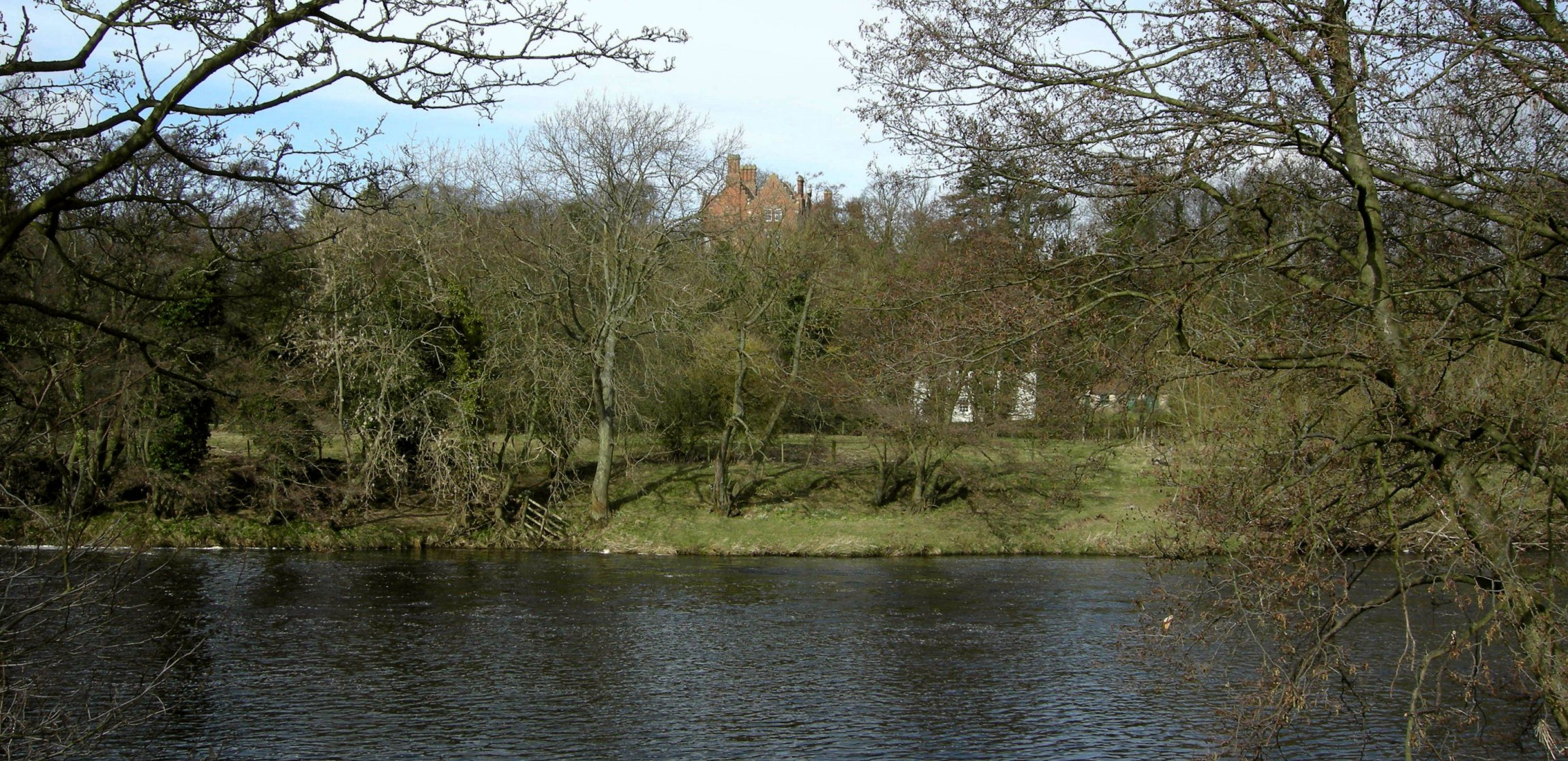 Carlbury Hill, Carlbury, County Durham, from south bank of River Tees. Carlbury Hall can be seen on the hill. In 1642 an English Civil War battle was won by the Royalists because they used this hill as a battery emplacement, which gave them the advantage over the Parliamentarians attempting to cross the river.